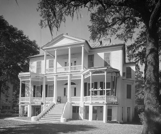 John Cuthbert House (Beaufort, South Carolina) (cropped)